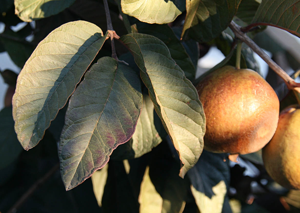 Red guava leaf